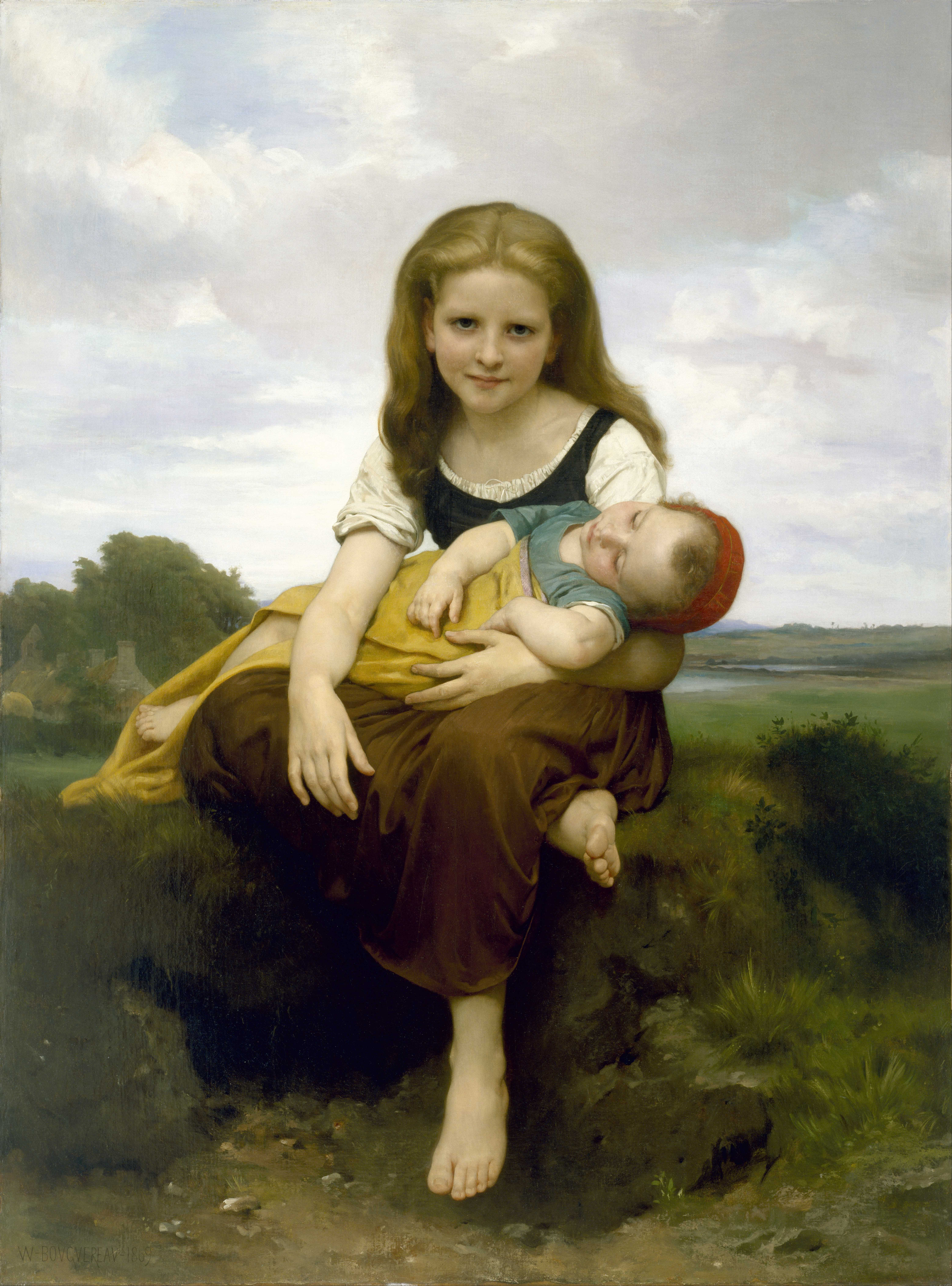 The artist's daughter Henriette and son Paul served as models.